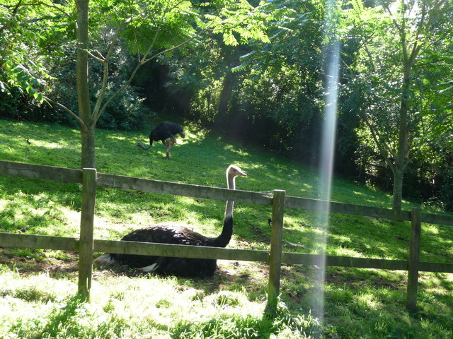 Paignton : Paignton Zoo, Ostriches The ostrich is a world-record holder. It is the largest bird in the world, it lays the biggest egg in the world (eating one ostrich egg would be like eating 40 hens eggs) and it is the fastest creature with two legs. It is also the only bird with two toes, an adaptions which helps it to run at up to 44mph. It lives on open grassland and eats grasses, seed, leaves and sometimes small animals.